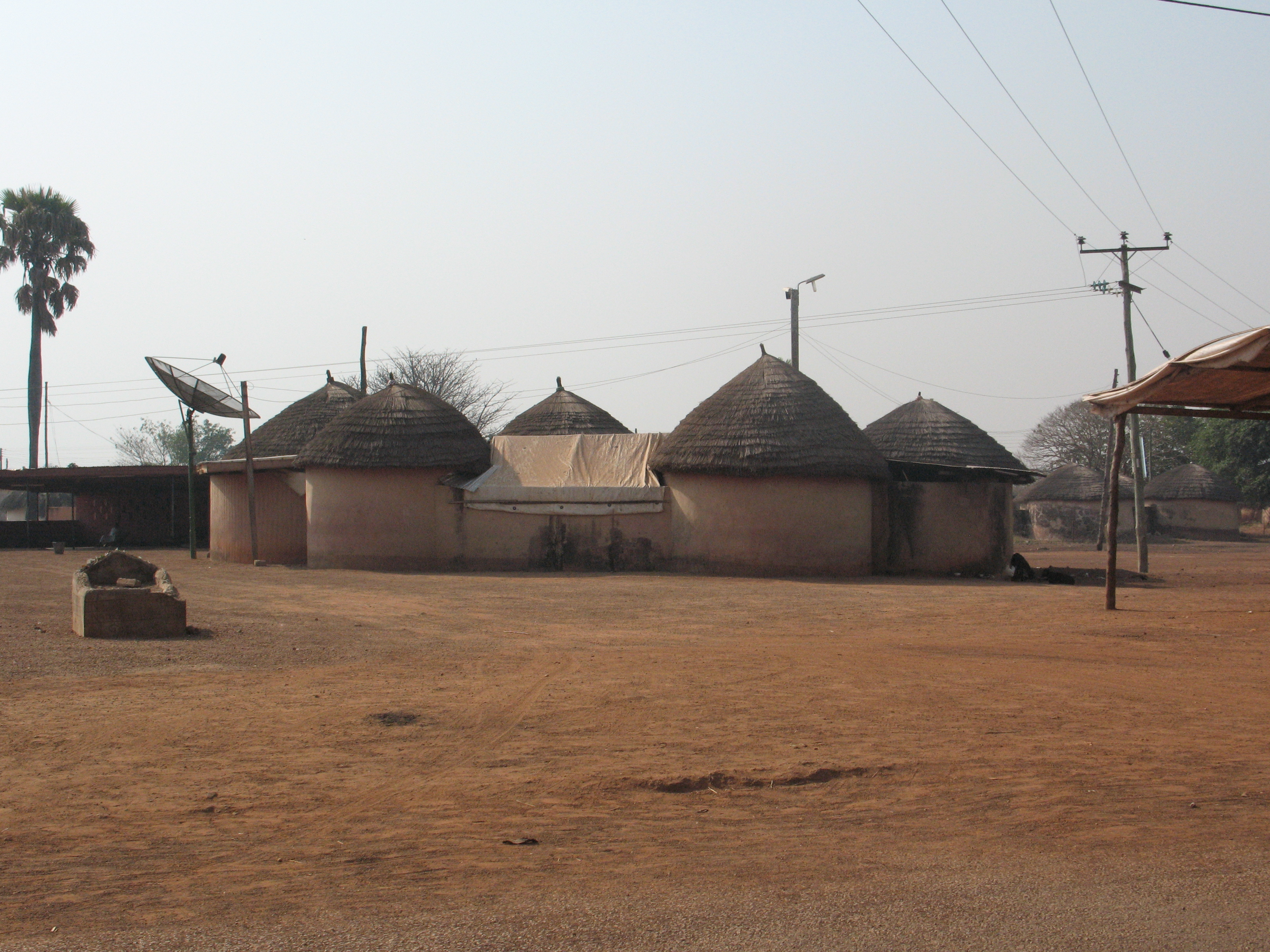 Traditional house in Yendi city centre, Northern Region, Ghana